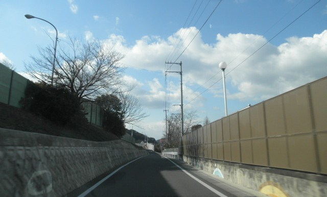 Hachimantown Hashimoto Tokushimacity Tokushimapref